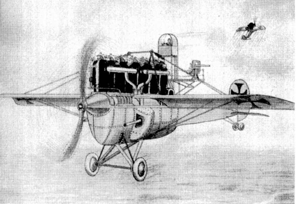 Carricature of Fokker Eindecker published in "Flight" for Feb 3 1916